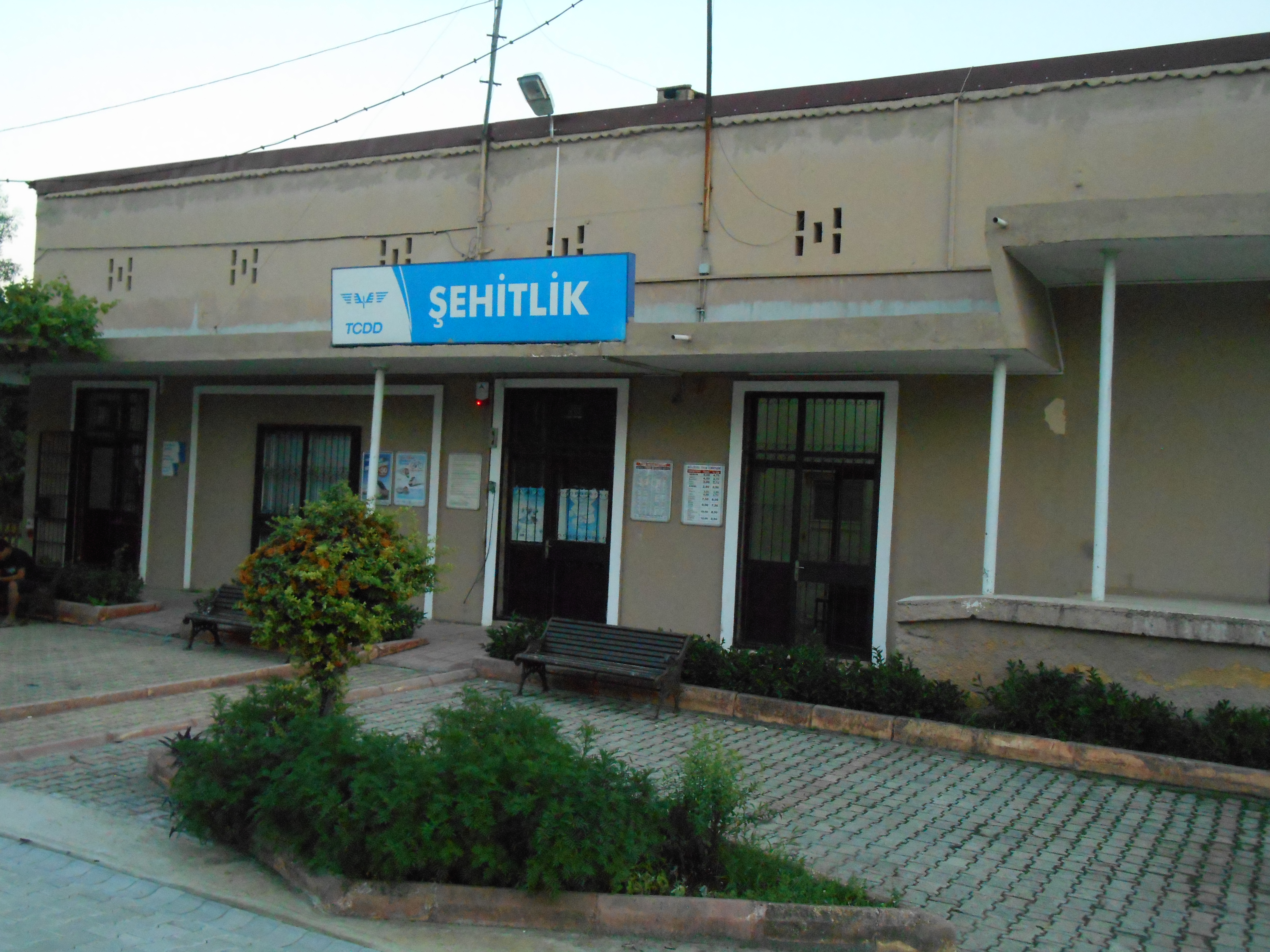 Şehitlik Station